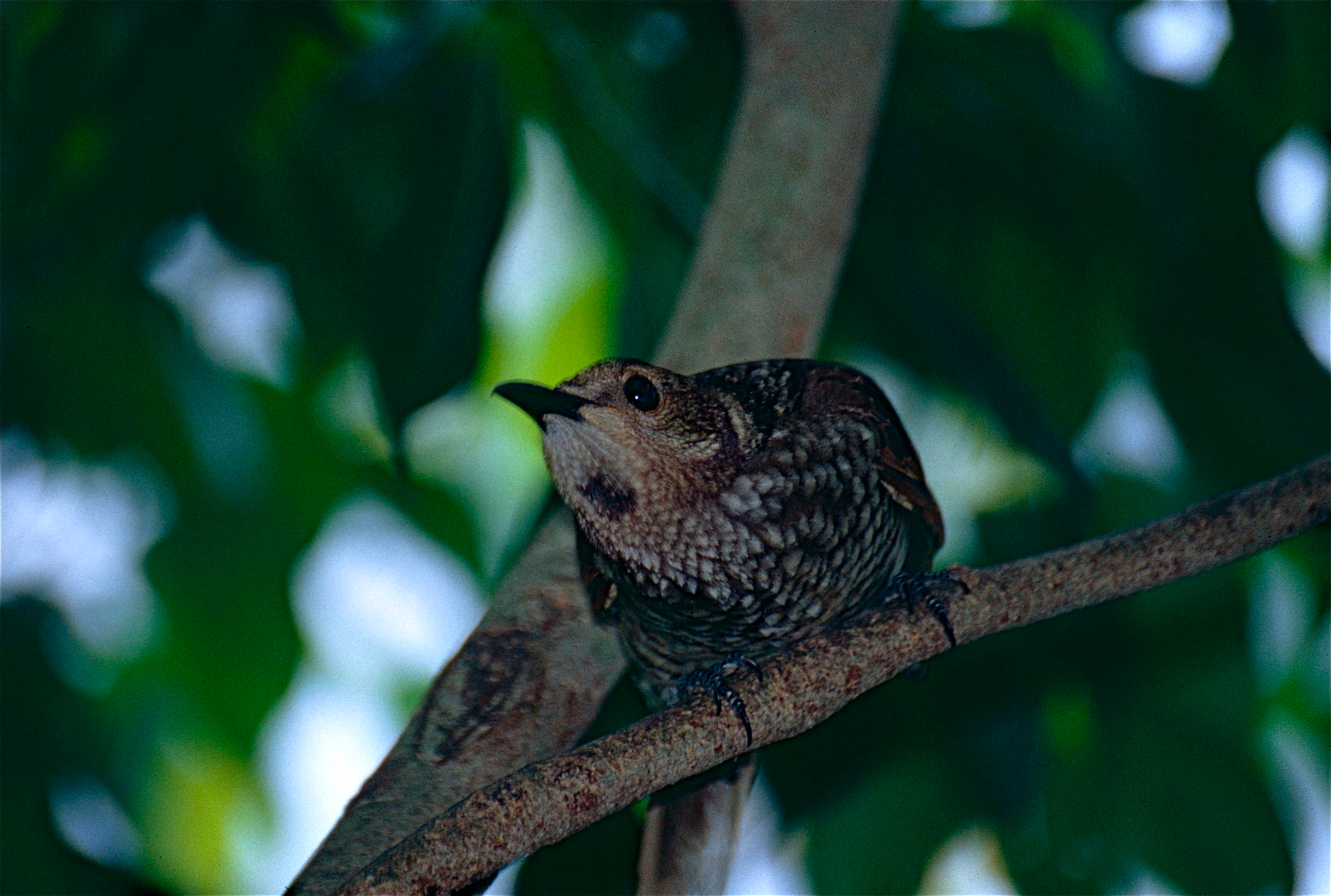 Birdworld, Kuranda, North Queensland, AUSTRALIA Scanned Slide from Nov 2000